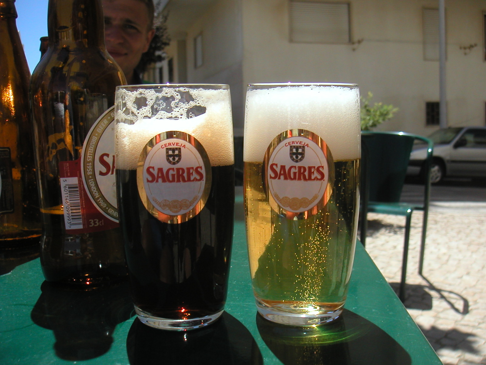 beer